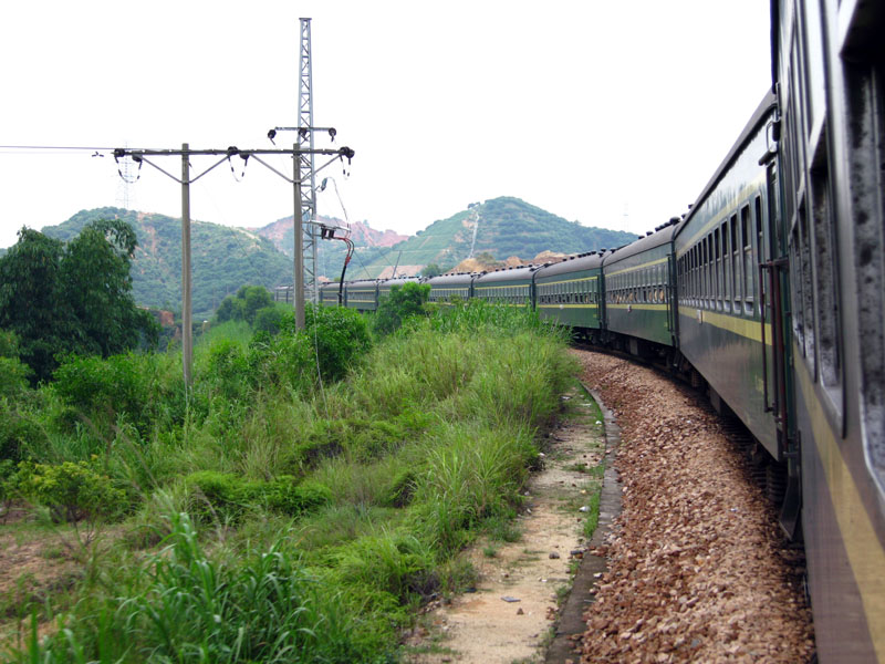 Pingnan Railway at Guangdong Province of China.